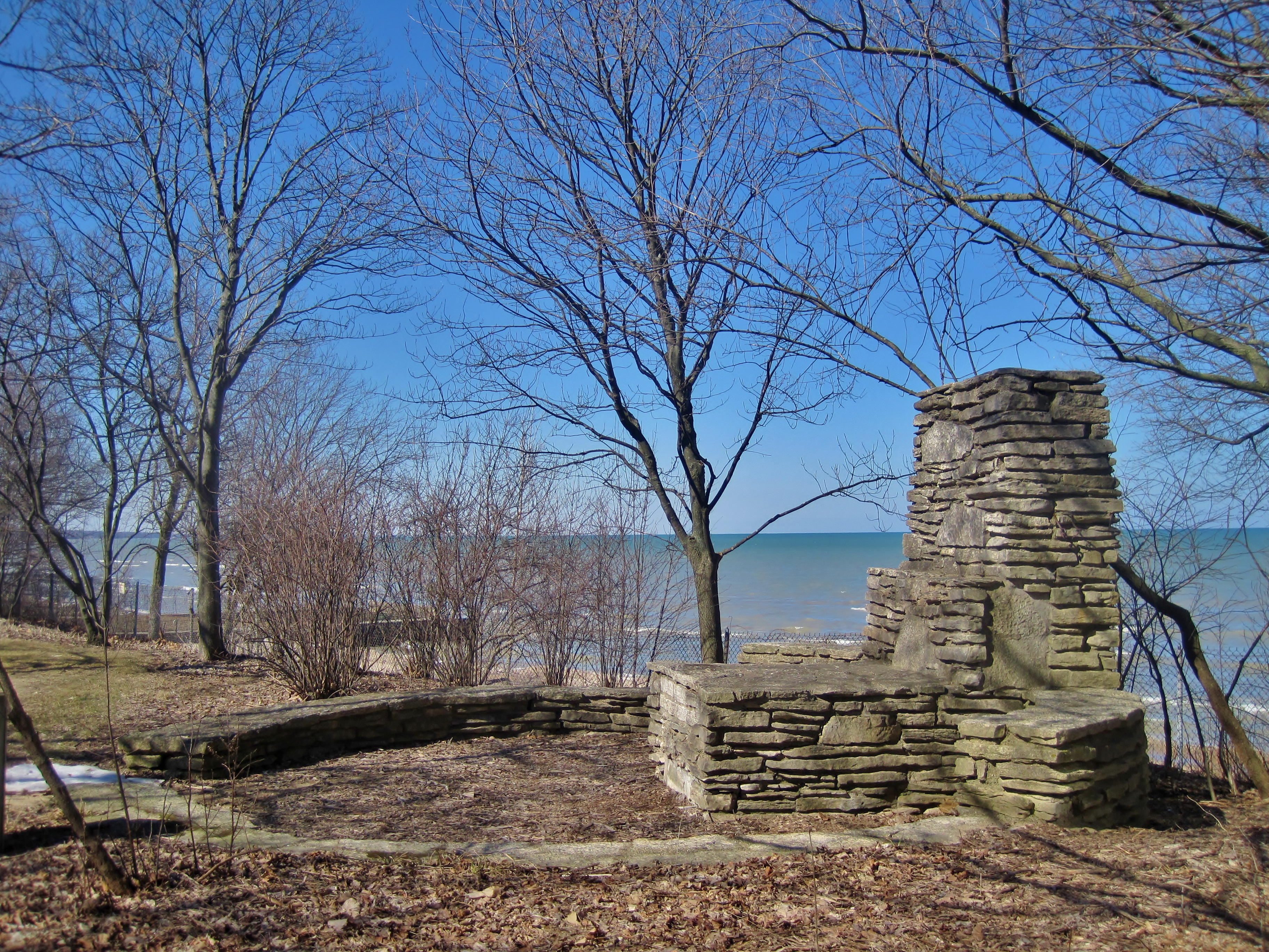 The Wild Flower and Bird Sanctuary in Mahoney Park in Kenilworth (1933). The park was conceived in 1929 for the purposes of nature study. Jens Jensen was commissioned to design the park, which was completed in 1933. Three council rings, a favorite Jensen feature, are found in the park. It is stylistically similar to the Lincoln Memorial Garden, which Jensen designed in Springfield three years later.